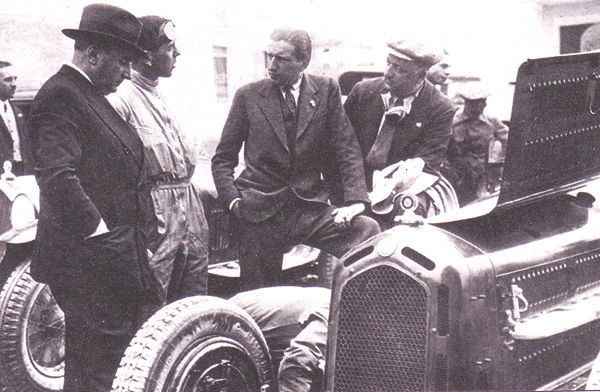 From left: Eduardo Weber, Giulio Ramponi (1902–86), Carlo Felice Trossi and Enzo Ferrari. This picture is of an Alfa Romeo 8C "Monza" 2300, which was used by Scuderia Ferrari. Ramponi was chief mechanic of this team until 1933/34, when he left for England.[1] This image is shown in several authoritative books on the Alfa 2300 8C, such as Simon Moore, where this picture is from a test in the Parma-Poggio di Berceto track in June of 1933.[2]